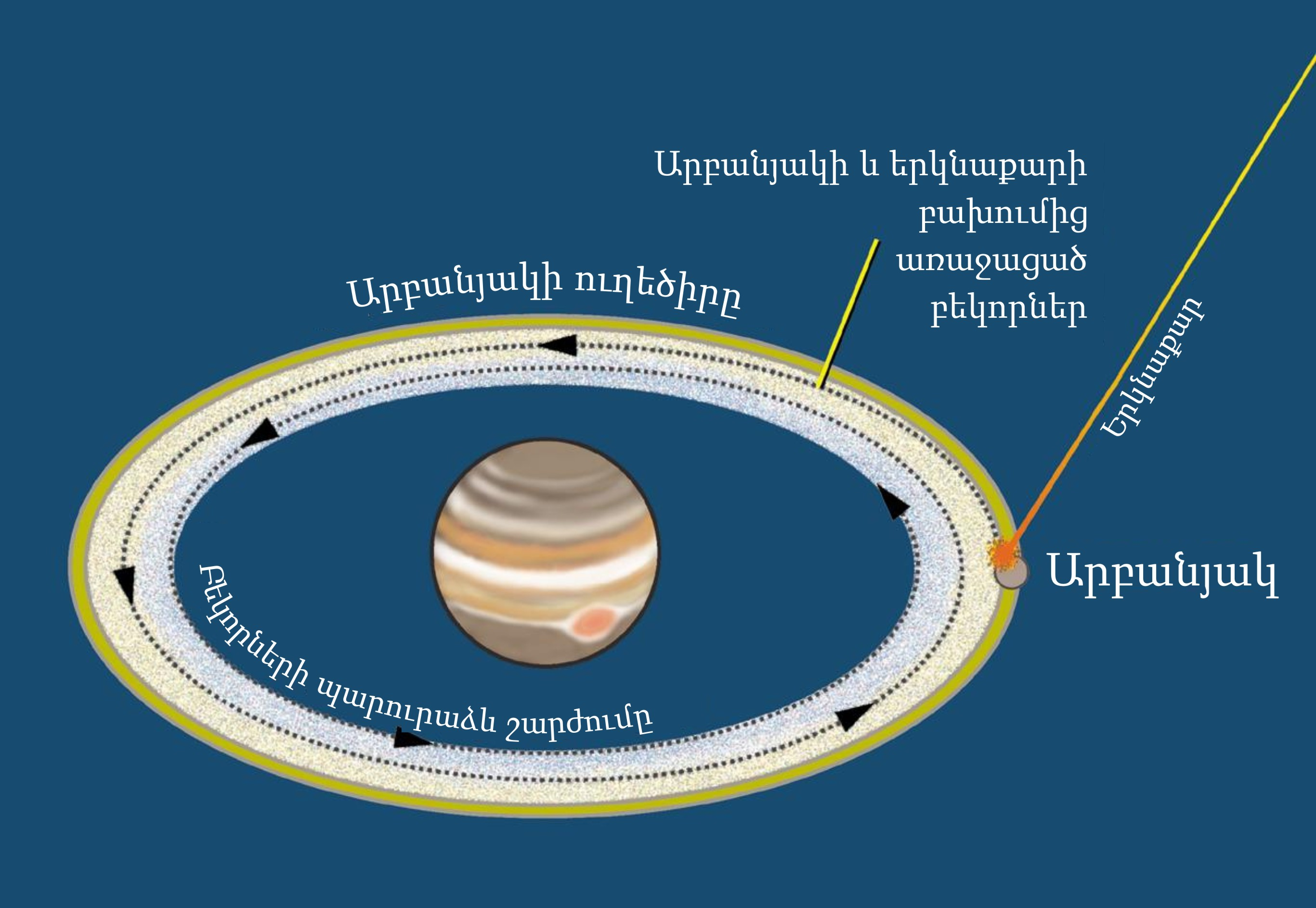 The Formation of Jupiter's Ring System